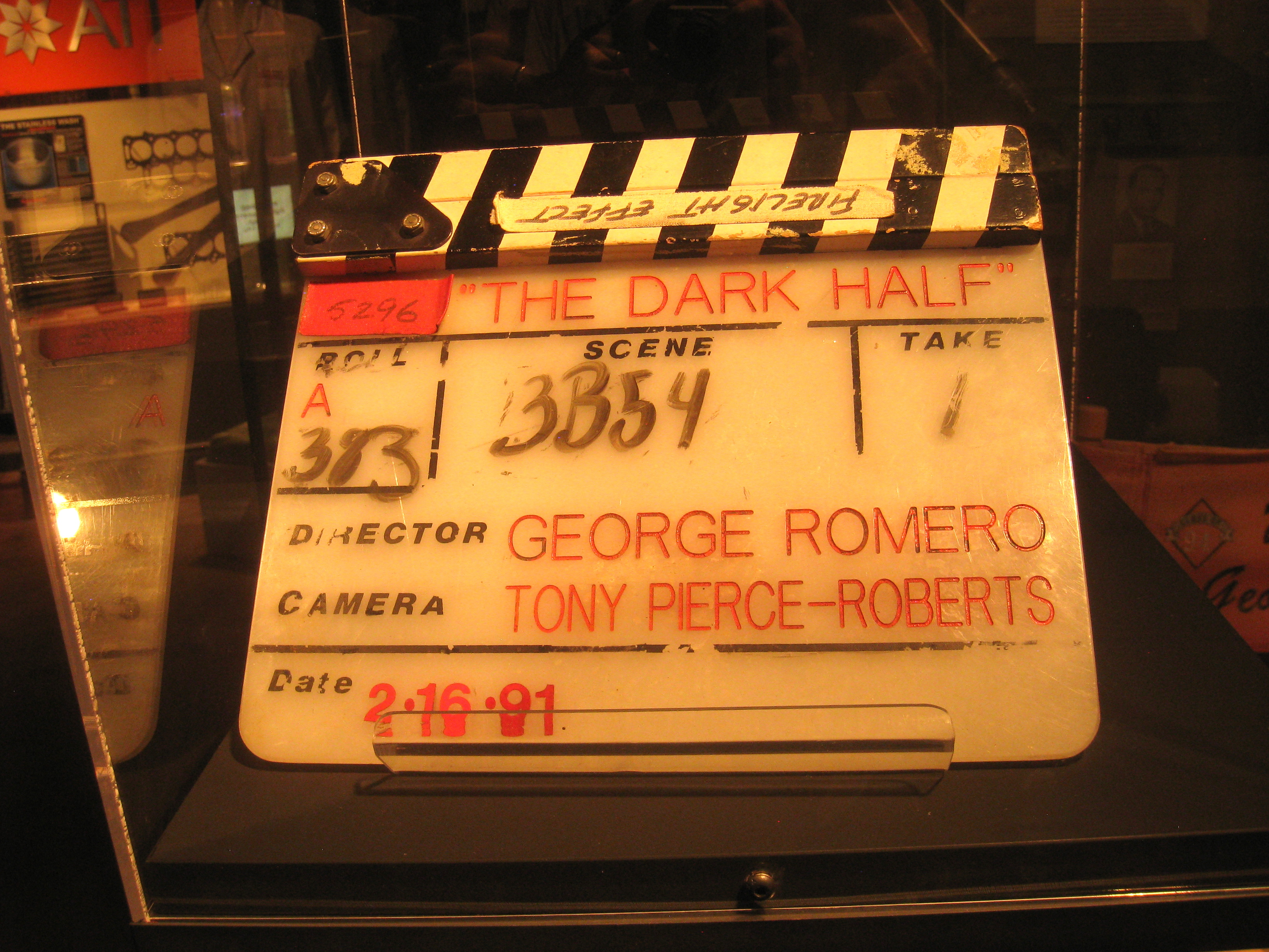 Clapperboard from the 1993 film The Dark Half directed by George A. Romero. Exhibit in the Senator John Heinz History Center, 1212 Smallman Street, Pittsburgh, Pennsylvania, USA.